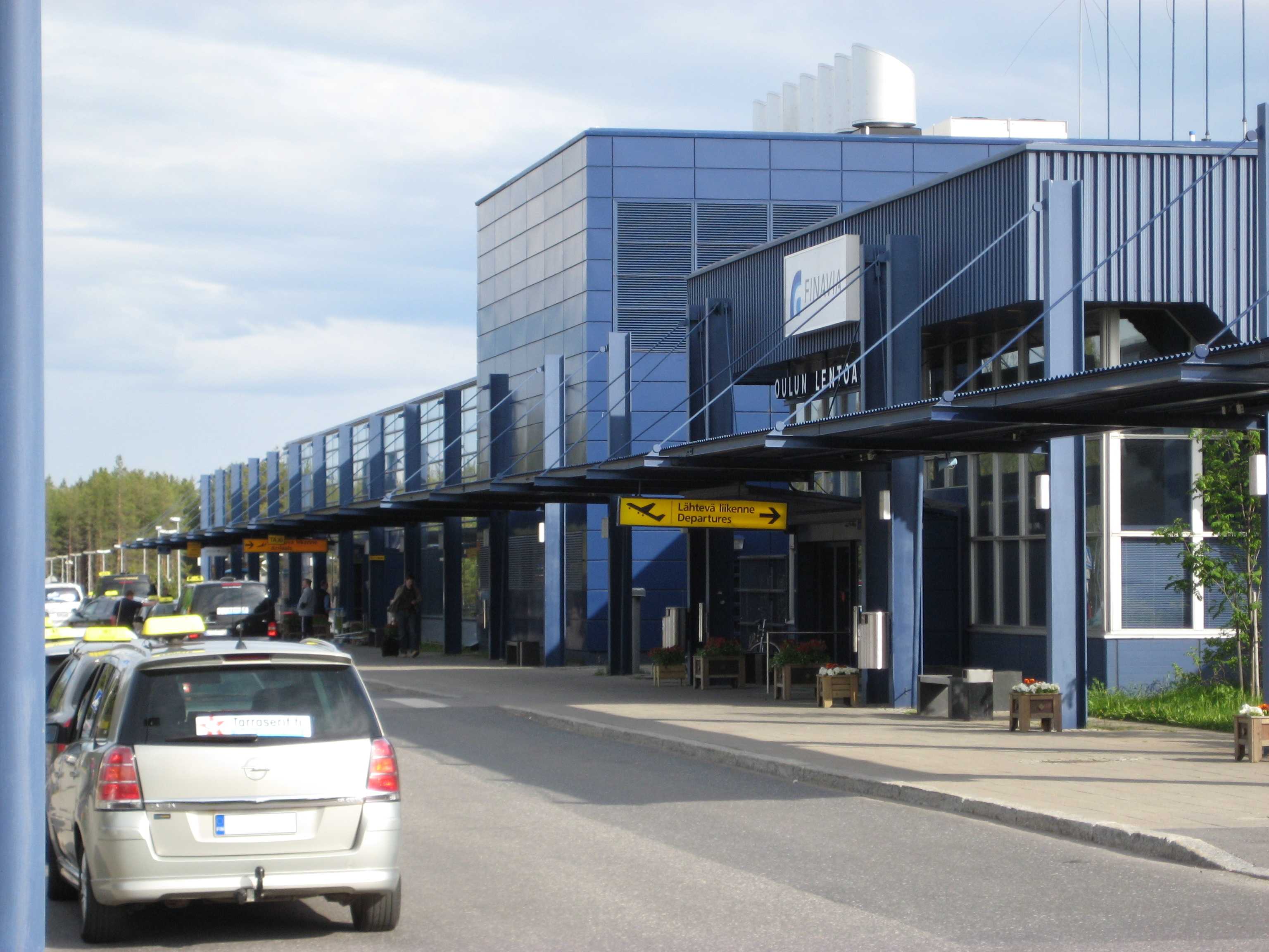 Terminal of Oulu Airport (OUL/EFOU) in Oulunsalo, Finland